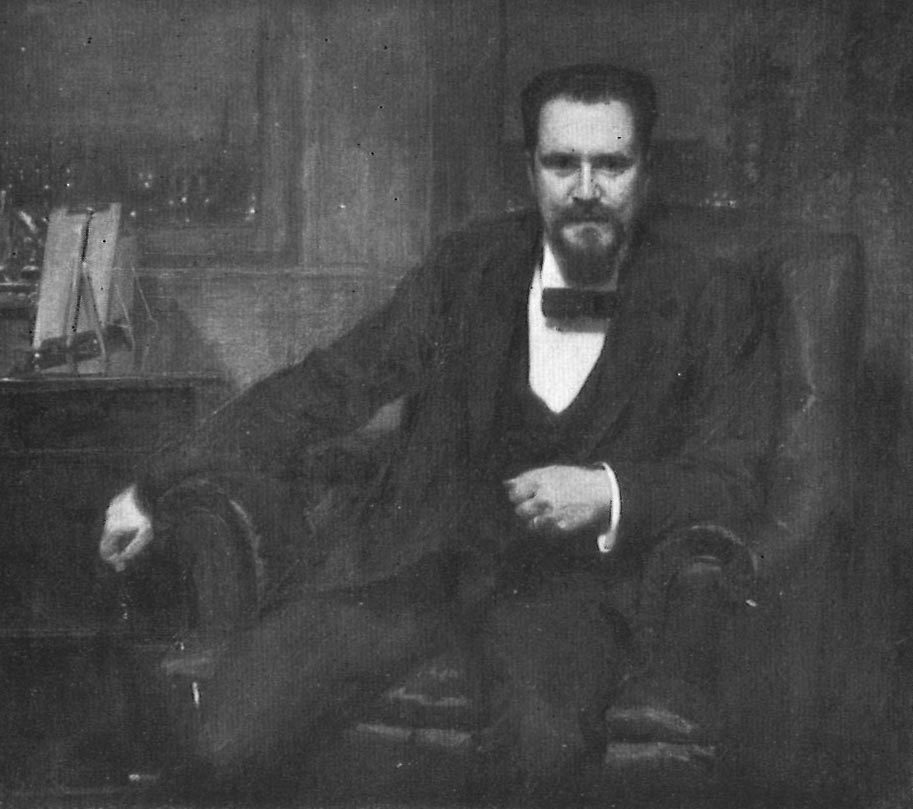 Ernest Thiel (1859-1947), Swedish banker, industrialist and art collector. Painting by Oscar Björck 1899.